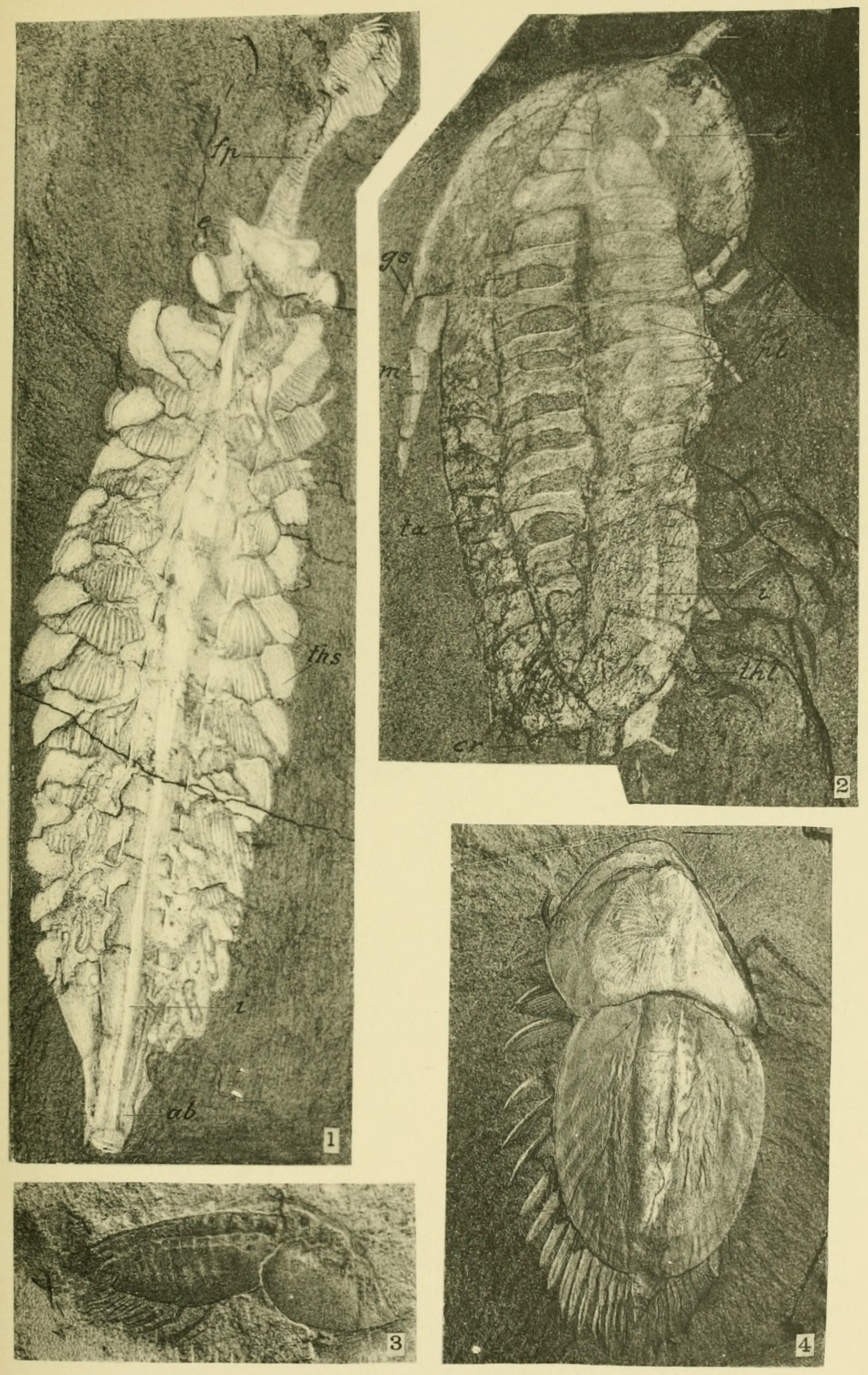 Plate 28: Middle Cambrian Crustaceans (Opabinia, Nathorstia, and Naraoia) 1. Opabinia regalis Walcott = Opabinia regalis Walcott, 1912 2. Nathorstia transitans Walcott = Olenoides serratus (Rominger, 1887) 3. Naraoia compacta Walcott = Naraoia compacta Walcott, 1912 4. Naraoia compacta Walcott = Naraoia compacta Walcott, 1912